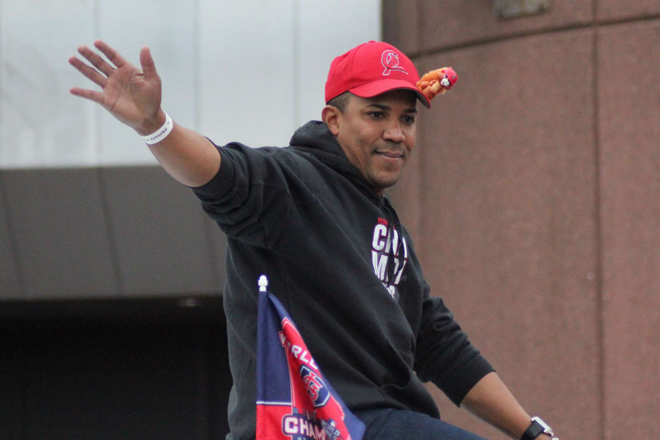 Octavio Dotel during the 2011 World Series victory parade Saint Louis Oct 30, 2011.